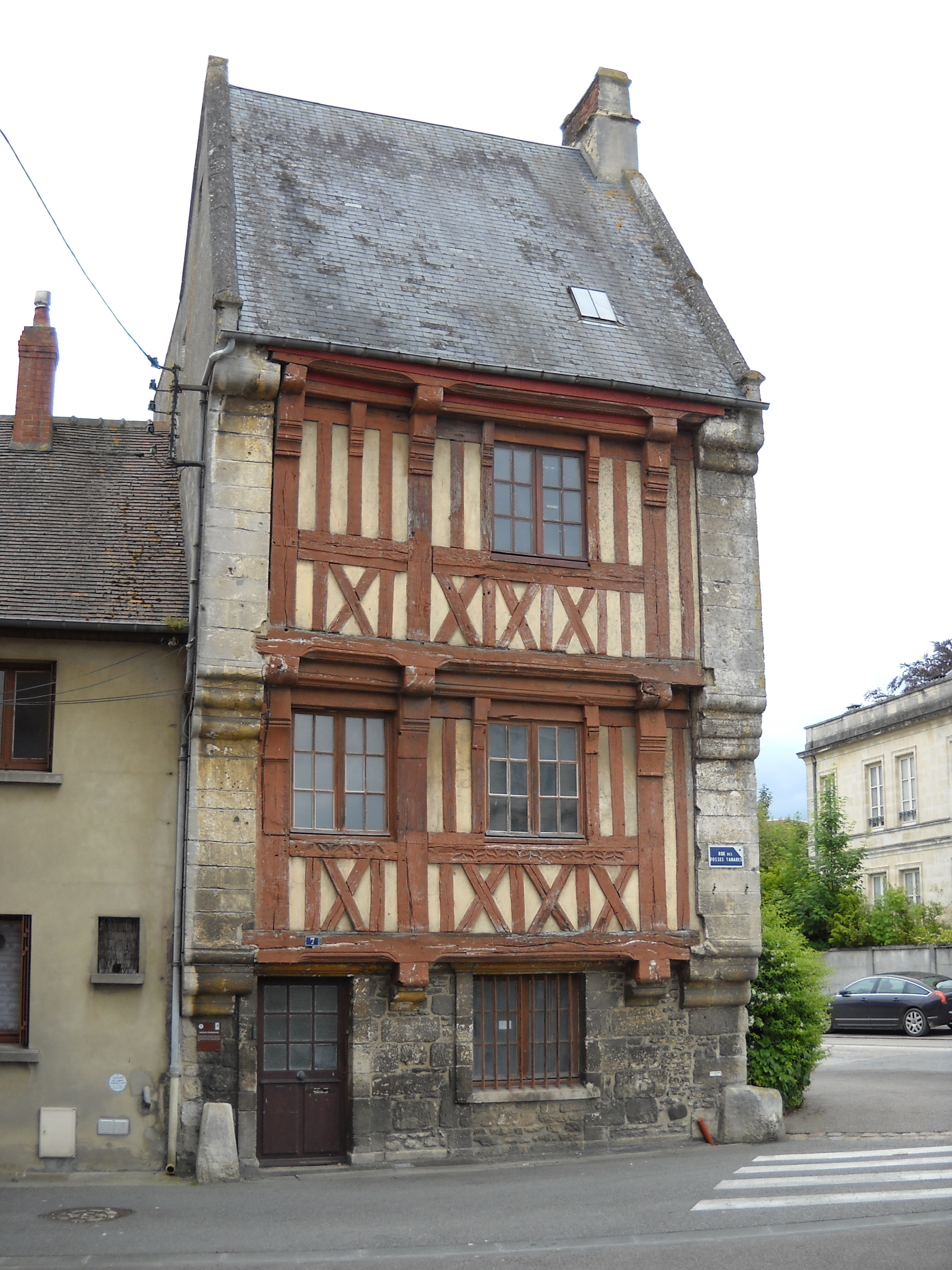 The 15th Maison des Fossés Tanarès, in Argentan, Orne, France.